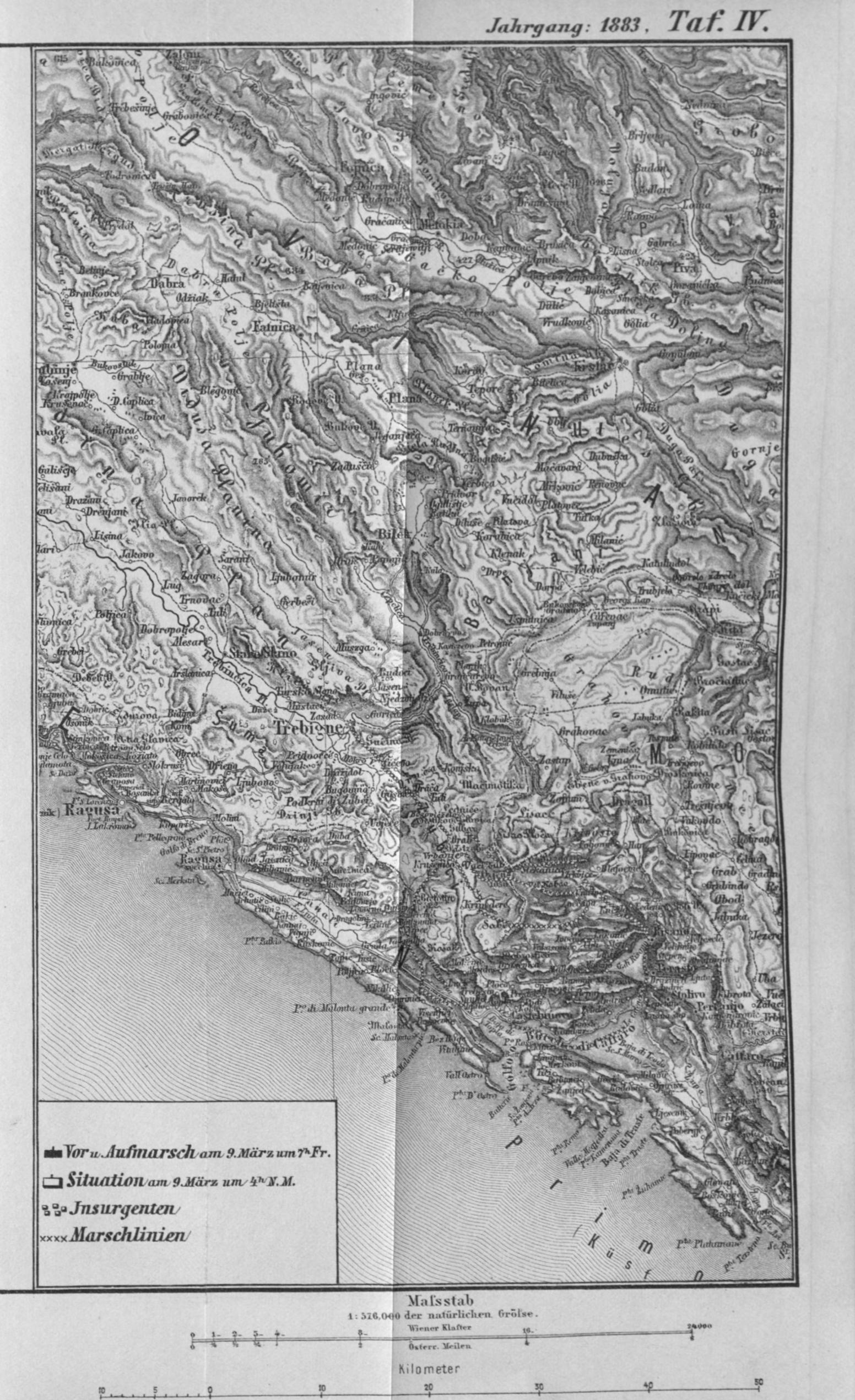 Regional map of insurrgent war in the Orjen and Hercegowinaa 1882 from the k.k. Austrian Military Journal 1883